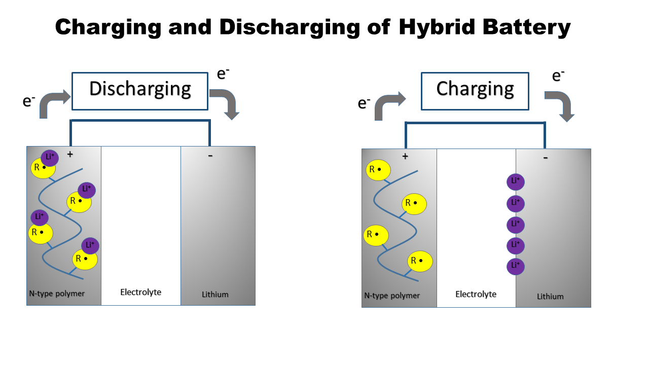 Figure 1 for Chem171